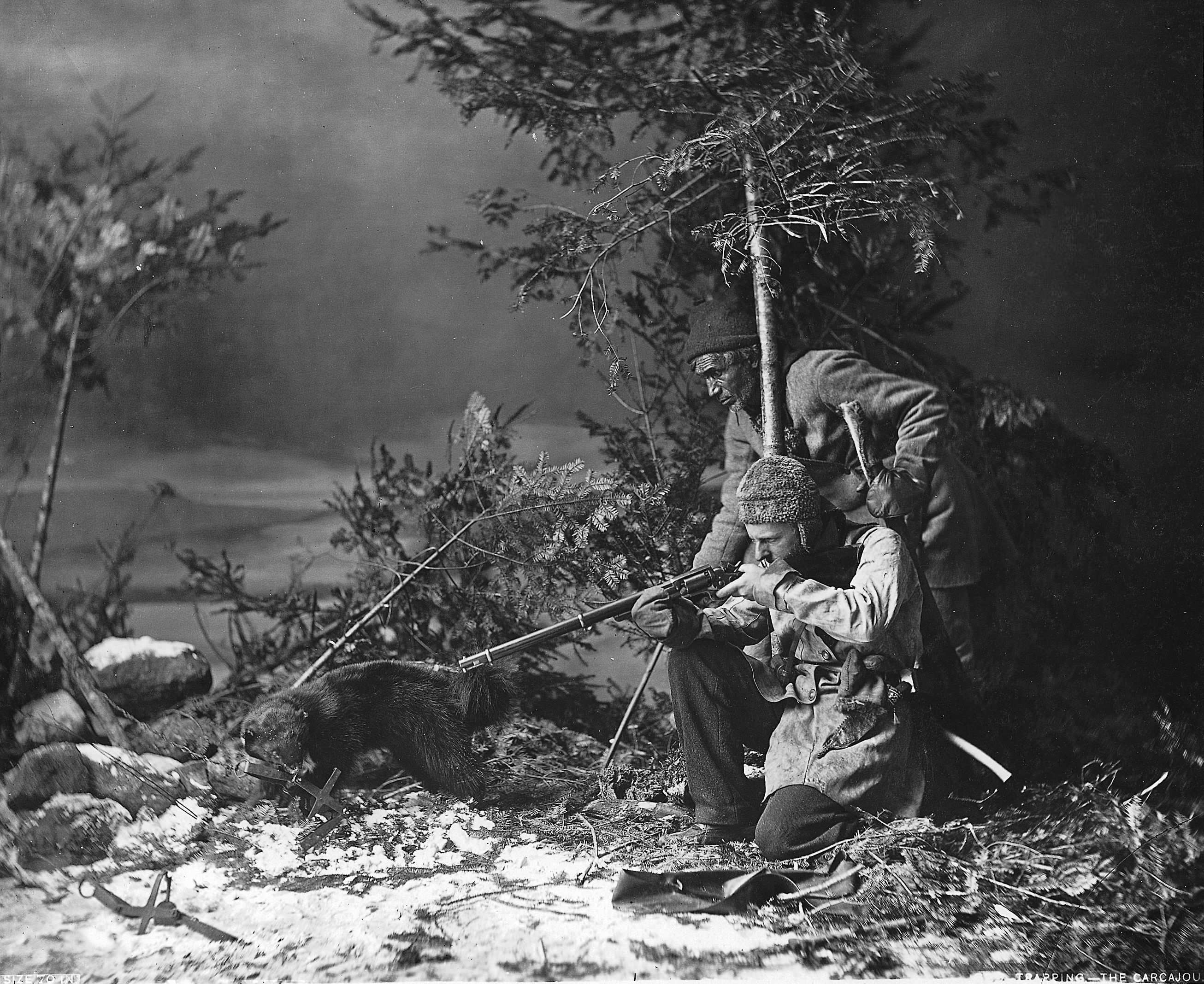 1866 Wet plate collodion of a staged wolverine trap